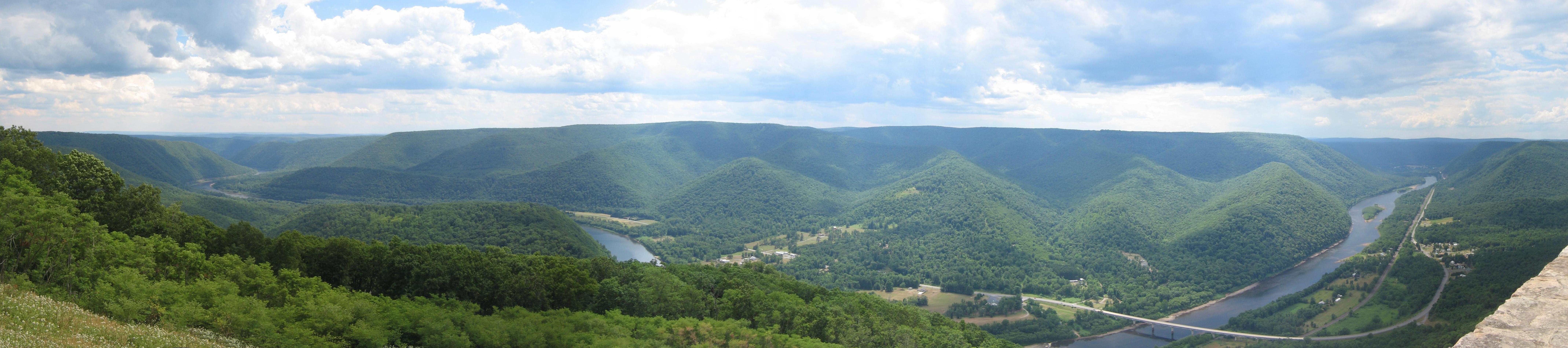 Panorama View of the West Branch Susquehanna River Valley from Hyner View State Park in Clinton County, Pennsylvania, United States. Pennsylvania Route 120 bridge is visible, as is part of the CCC built wall.